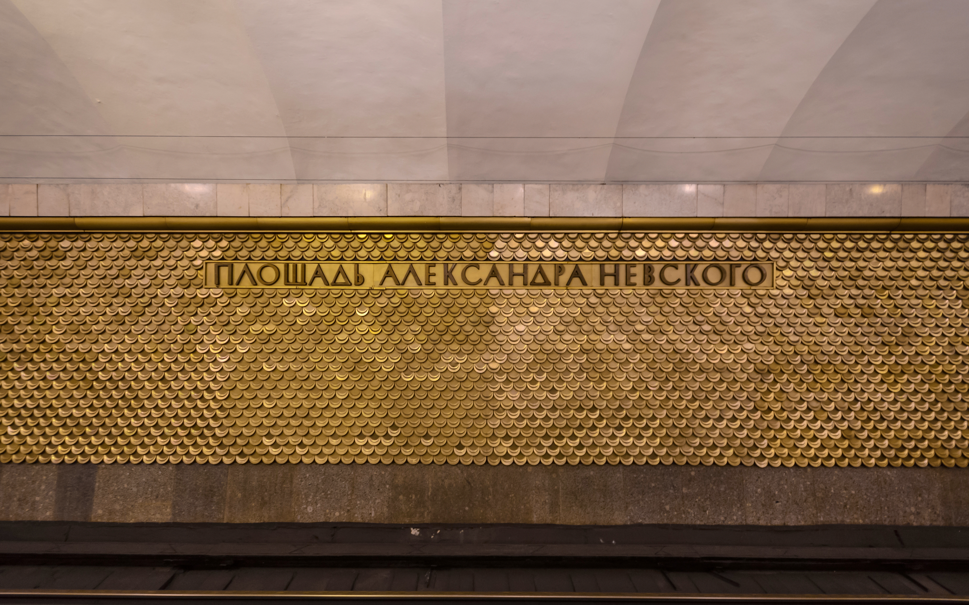 Ploshchad Alexandra Nevskogo-2 station of Saint Petersburg Metro